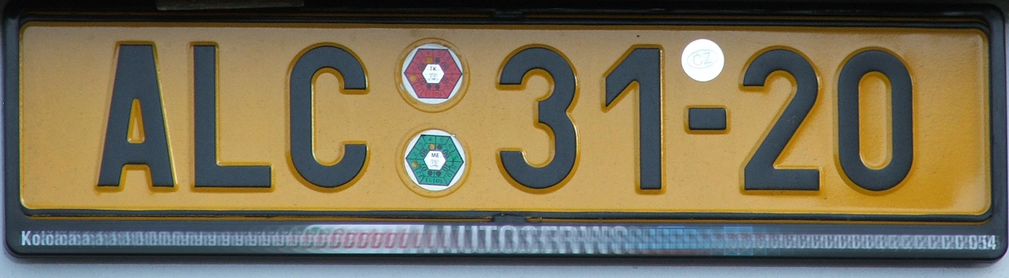 Czech registration plate issued in 2001,(Old system of licence plates). Yellow background was then used by utilitary or heavy vehicles.